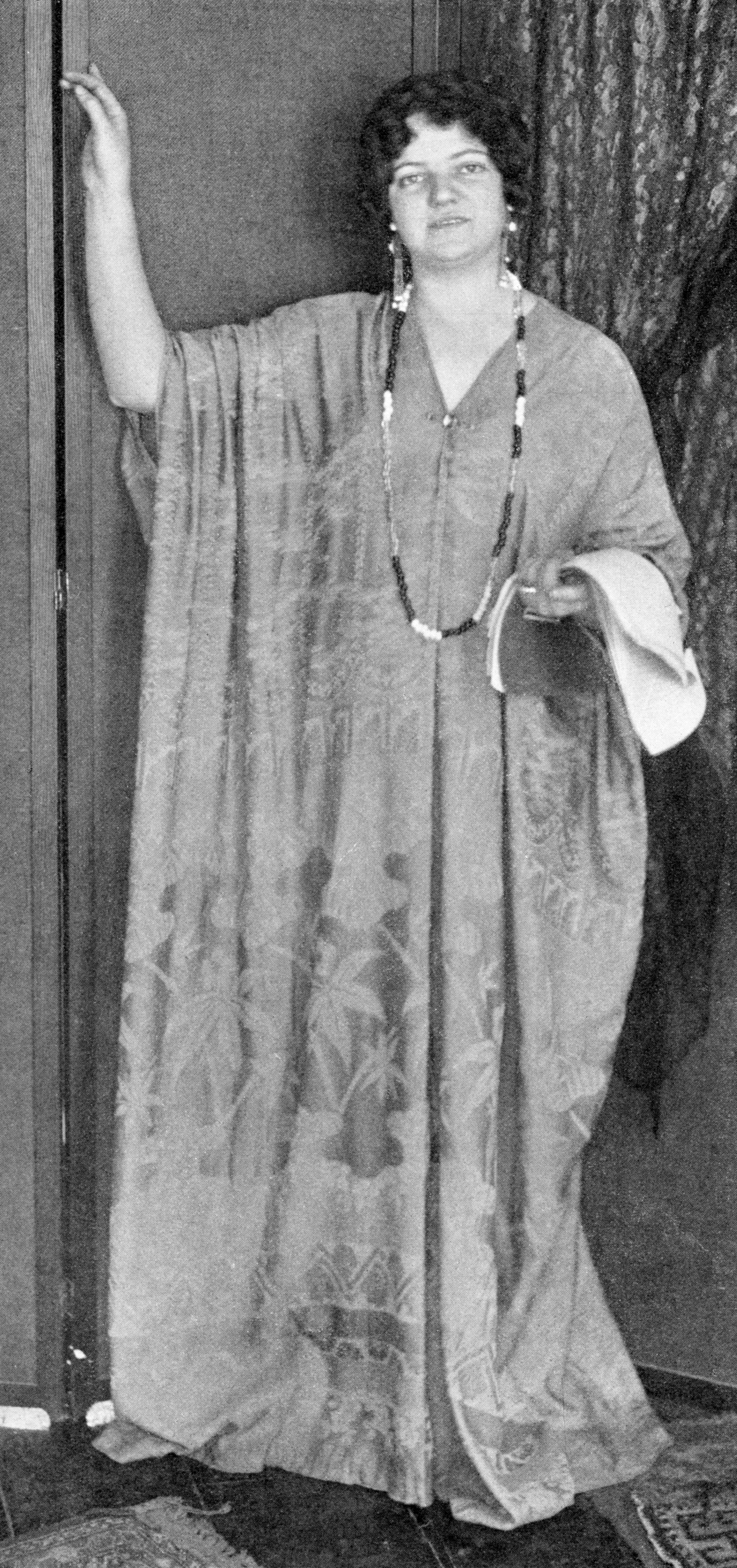 Photograph of Nina Wilcox Putnam Caption reads as follows:Author and ardent leader of feminine rebellion against the tyranny of Fashion in Dress. "Revolt, not reform" is her advice to women. Mrs. Putnam has discovered and herself adopted a costume that is beautiful, healthy and cheaply made.